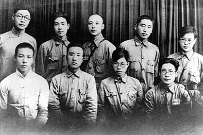 Members of the CPC Jiaodong Special Committee, photographed at Huang County in May 1938.